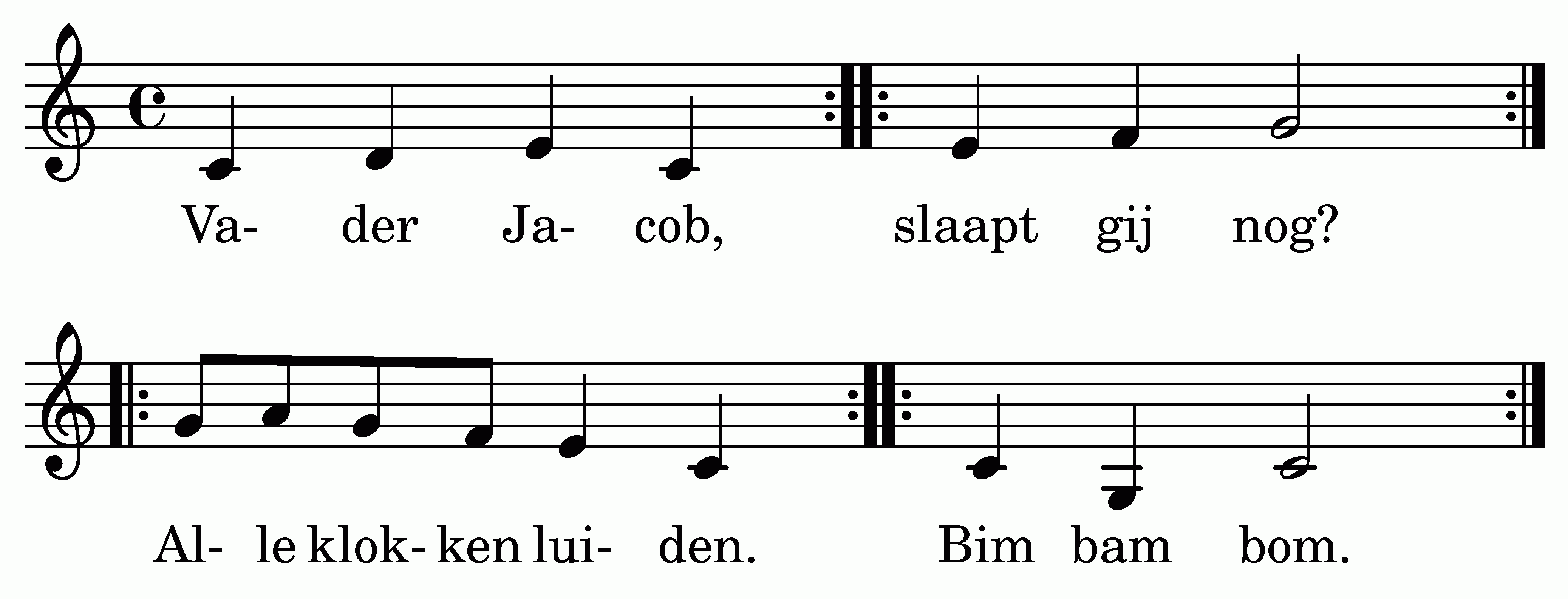 Vader Jacob, traditional song, created with lilypond, \time 4/4 { \relative { \repeat volta 2 { c d e c } \repeat volta 2 { e f g2 } \repeat volta 2 { g8 a g f e4 c } \repeat volta 2 { c g c2 } } \addlyrics { Va- der Ja- cob, slaapt gij nog? Al- le klok- ken lui- den. Bim bam bom. } }